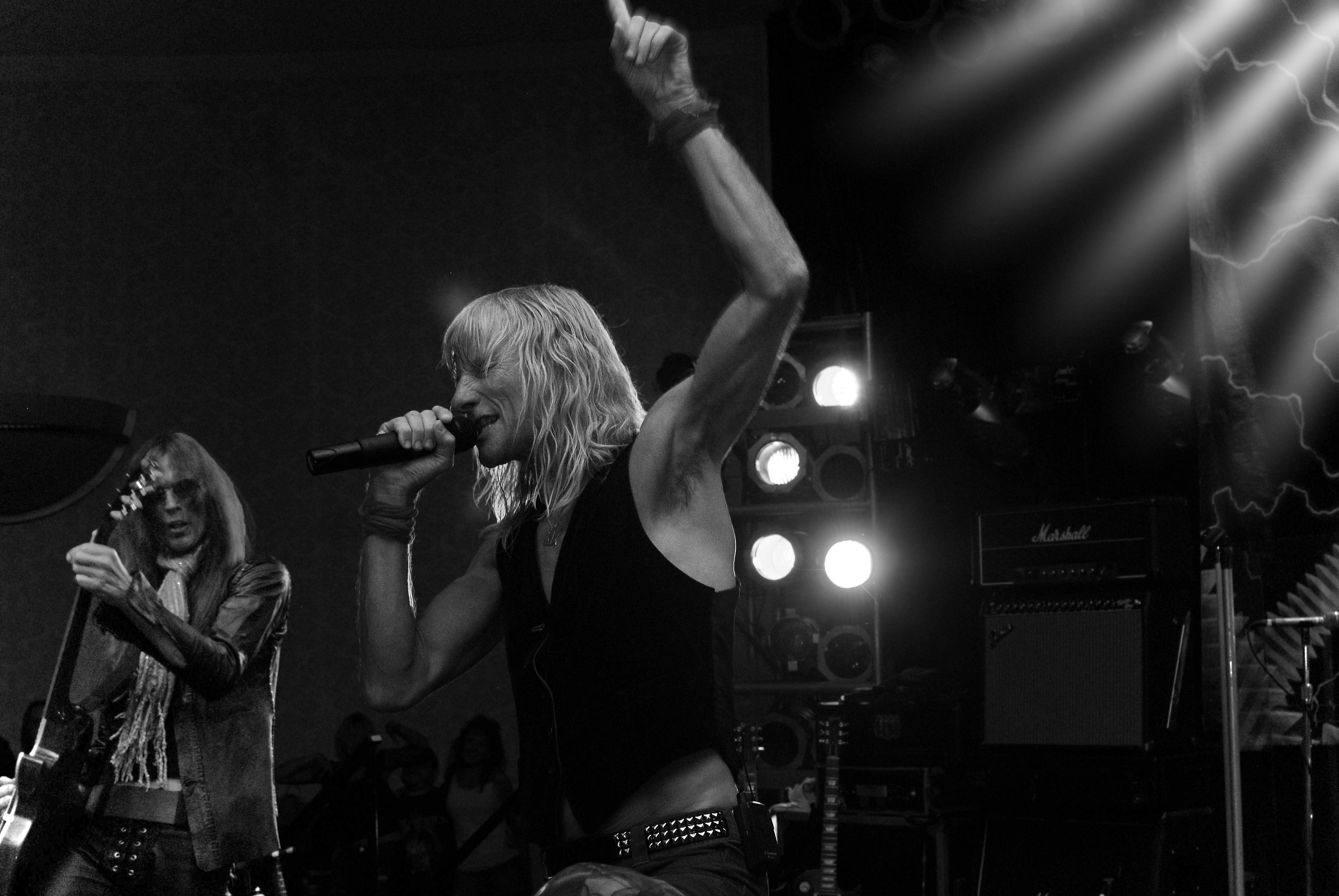 Kix (band) lead singer Steve Whitemen in 2010. Photo by Ted Van Pelt